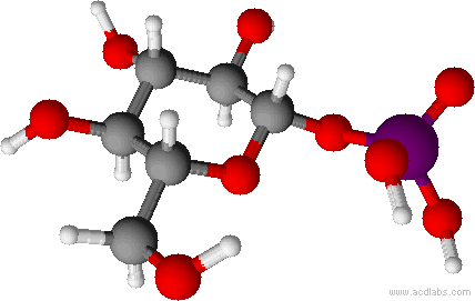 Cori ester spacefill model. Made with ACD/ChemSketch